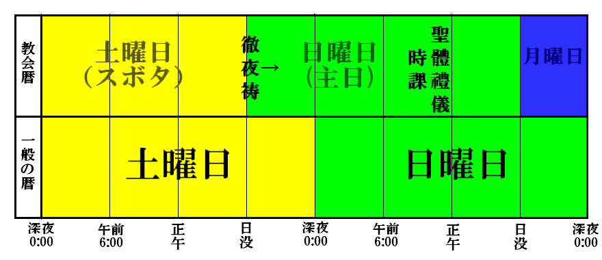 Explanation for Church calendar (Sunday Liturgy) in Japanese